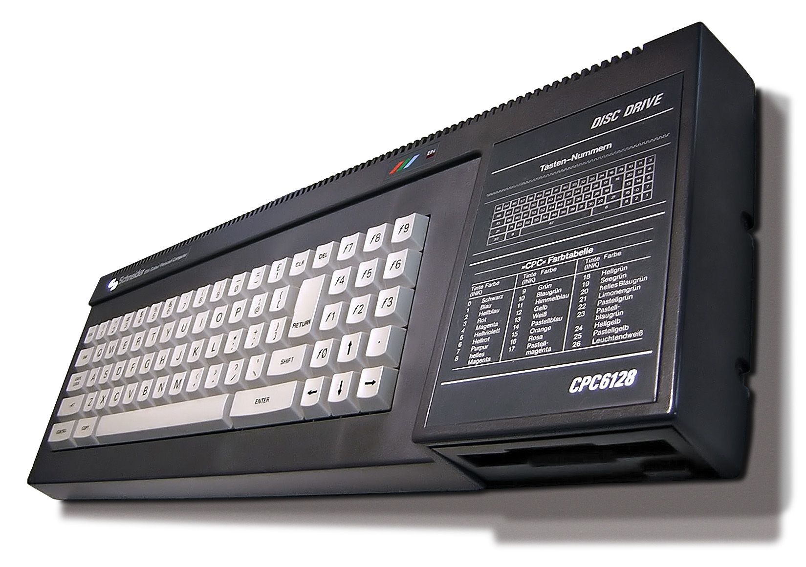 Schneider CPC6128 home computer with integrated disk drive. This machine is closely-related to the Amstrad CPC6128.